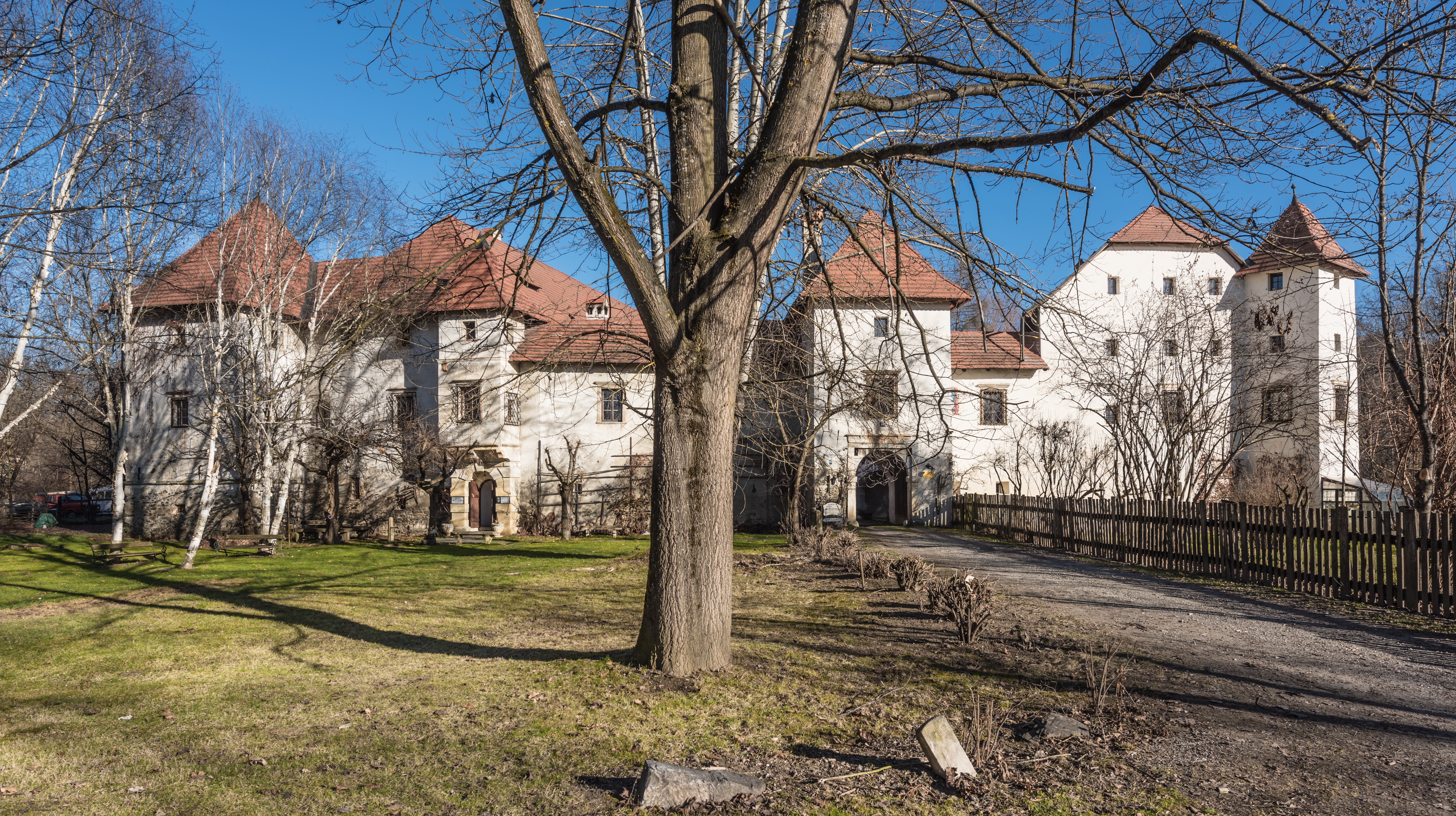 Castle Weyer on the Wayer Strasse in Sankt Veit an der Glan, municipality Sankt Veit an der Glan, district St. Veit an der Glan, Carinthia, Austria, EU